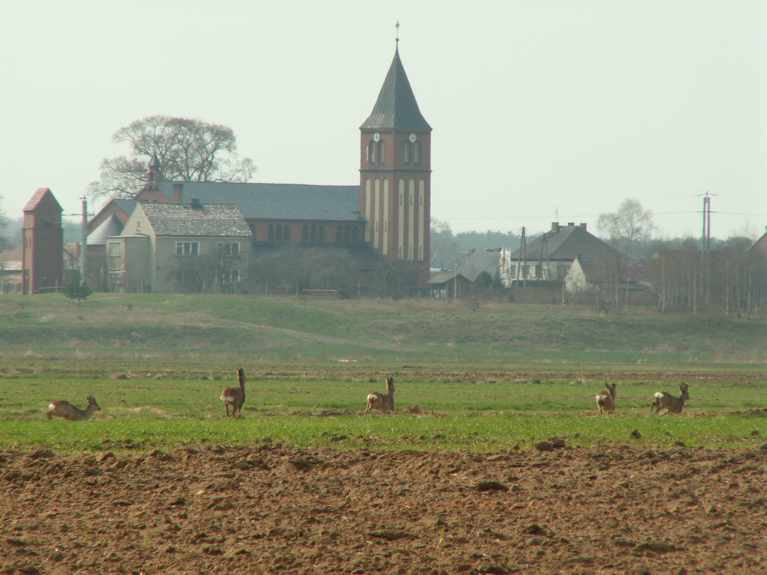 The town and fields of Szczedrzyk.